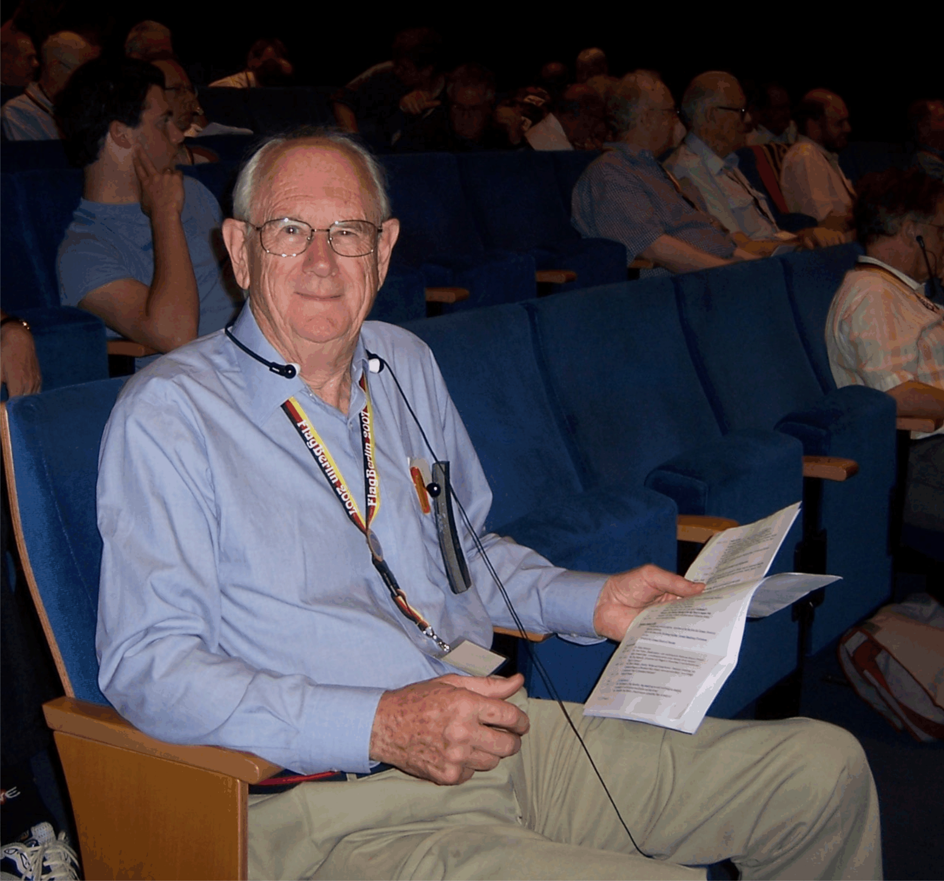 Peter Edwards at the 22 ICV. Berlin 2007